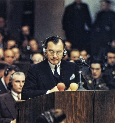 Cropped version of File:Jackson Nuremberg color.jpg - Chief American prosecutor Robert H. Jackson addresses the Nuremberg court